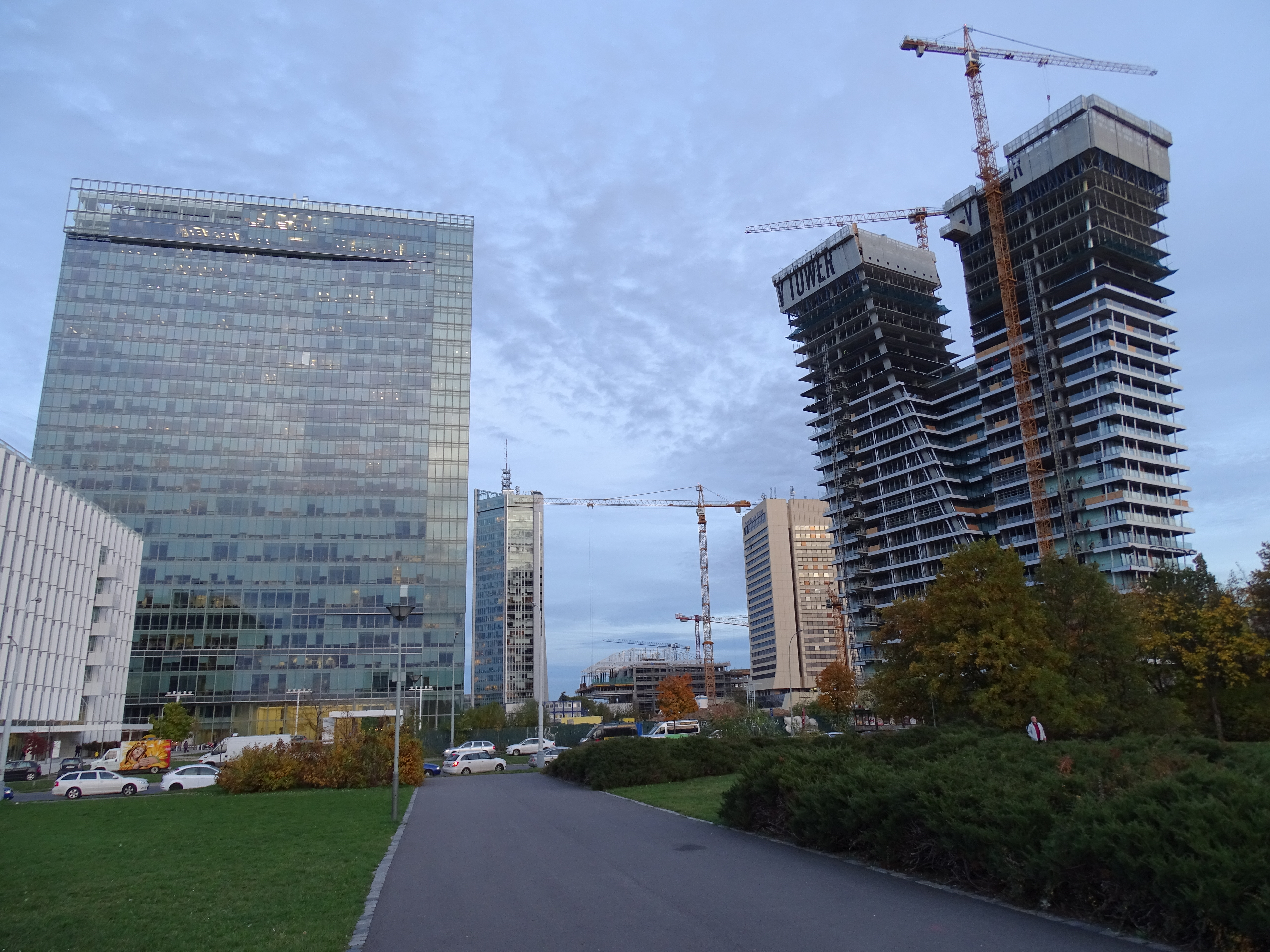 Prague-Nusle, Czechia, Pujmanové street, Pankrác towers.